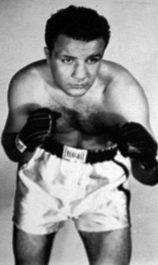 Postcard photo of boxer Jake LaMotta written and signed by him in 1952.